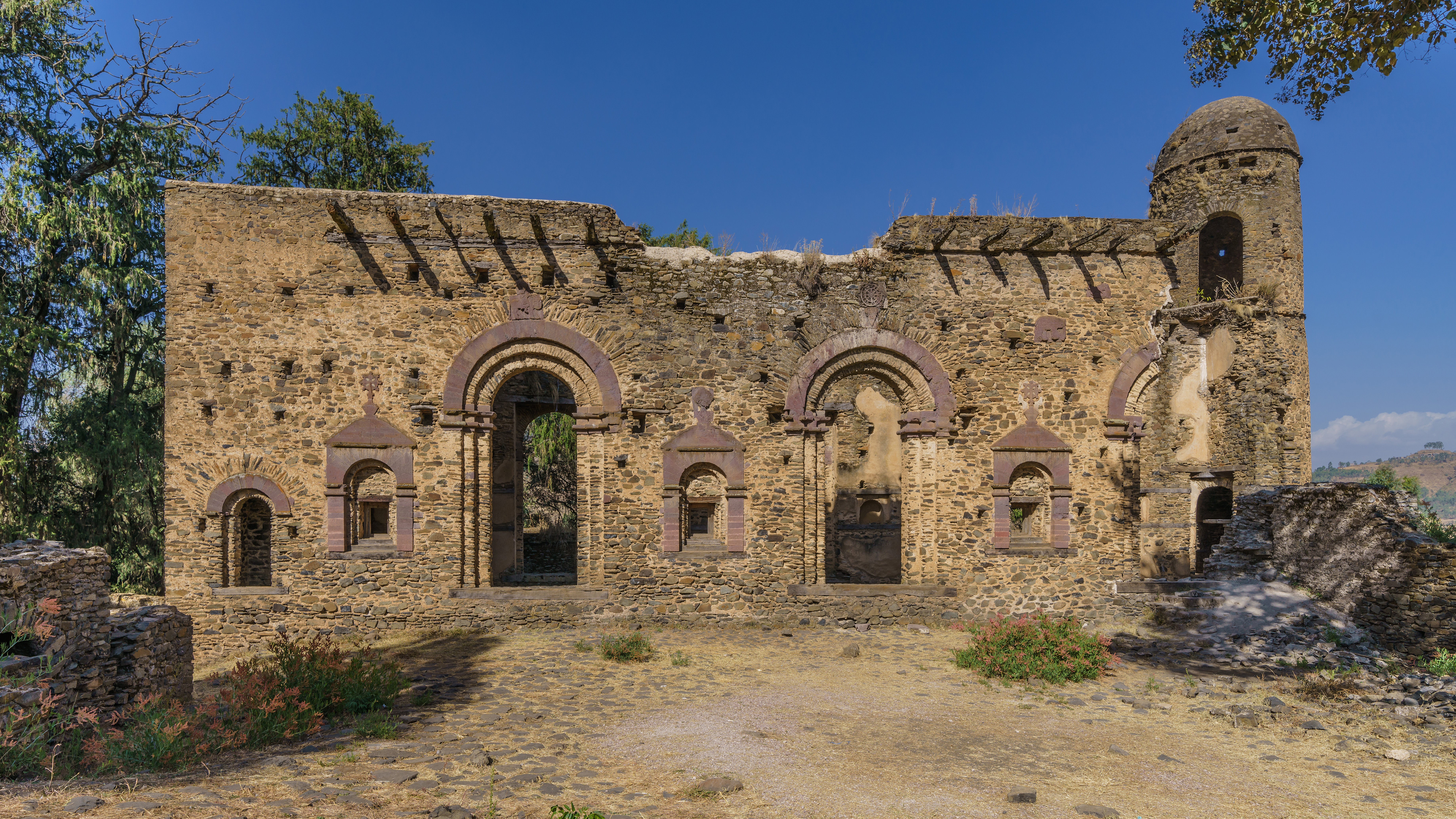 Mentewab's Palace – Kusquam fortress in Gondar, Ethiopia